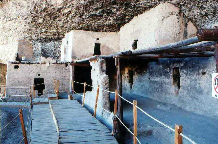 archaeological zone named 40 casas in Madera Chihuahua,Delfino Nunez,Own Work